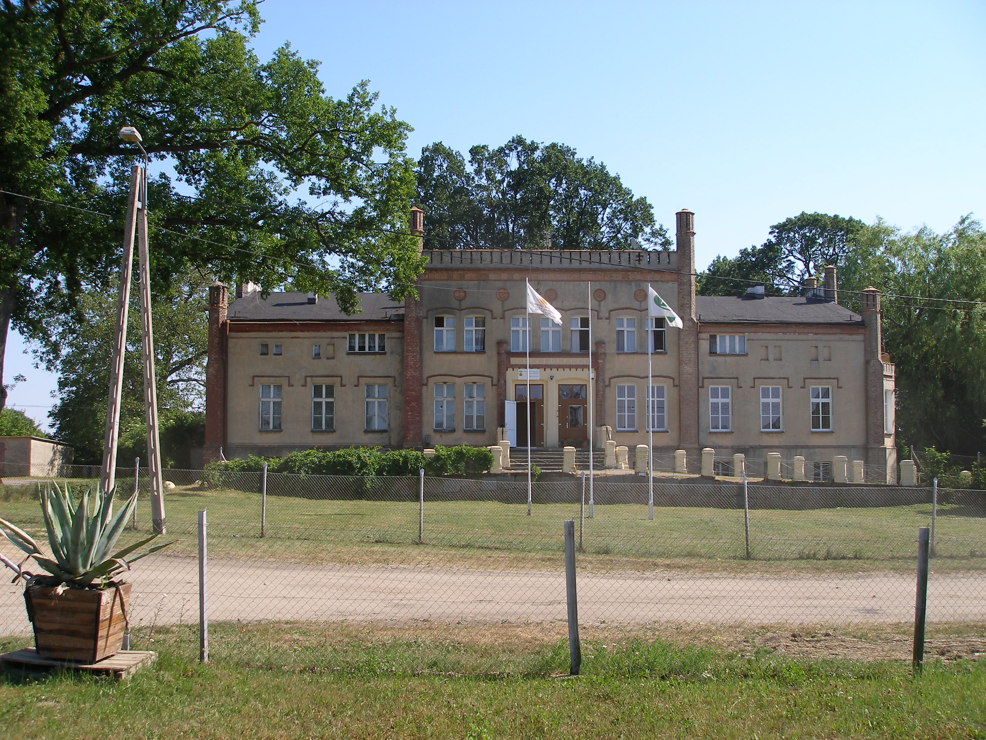 Celbowo. Rodenacker's Palace